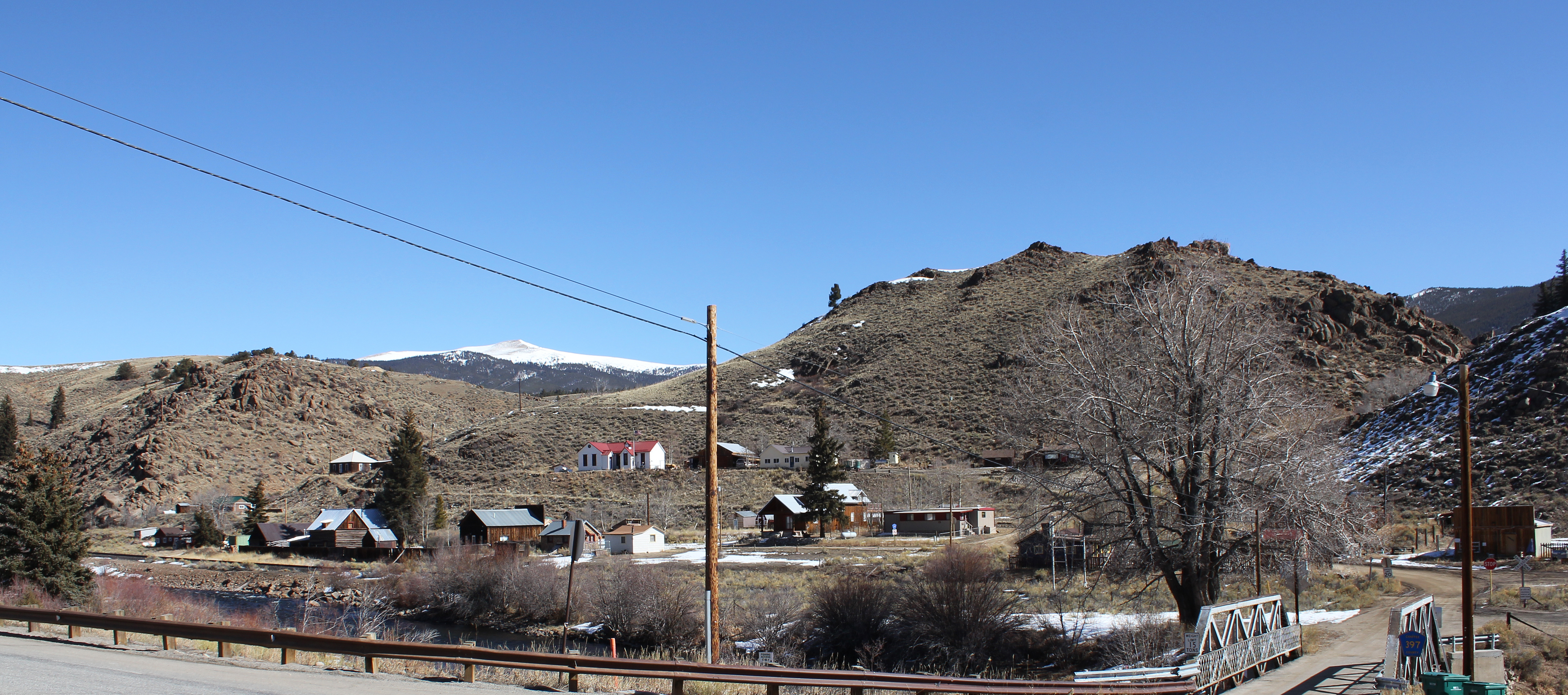 The community of Granite, Colorado. The view is from U.S. Route 24 looking over the Arkansas River towards the town.